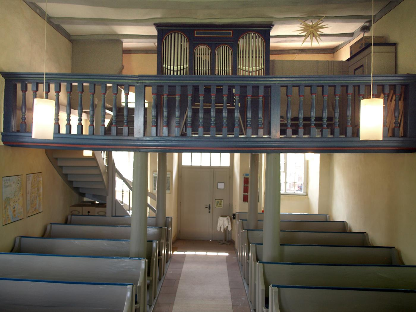 Gewissenruh (Oberweser), Hessen, Germany, interior of the church, photo 2012